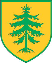 Coat of arms of Võru linn, Estonia